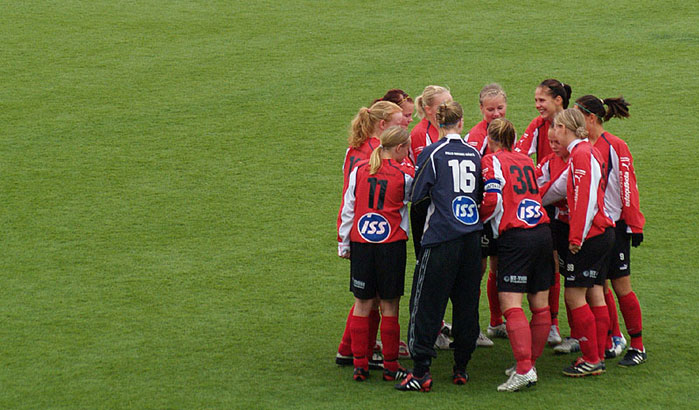 Kuopion Mimmifutis (KMF) of Kuopio, Finland. A Women's National Championship football team. Own photo.